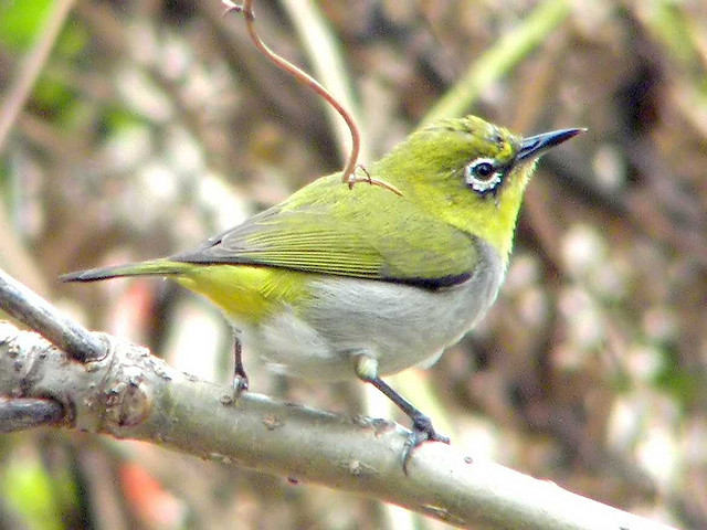 Zosterops japonicus. Saw near my home.